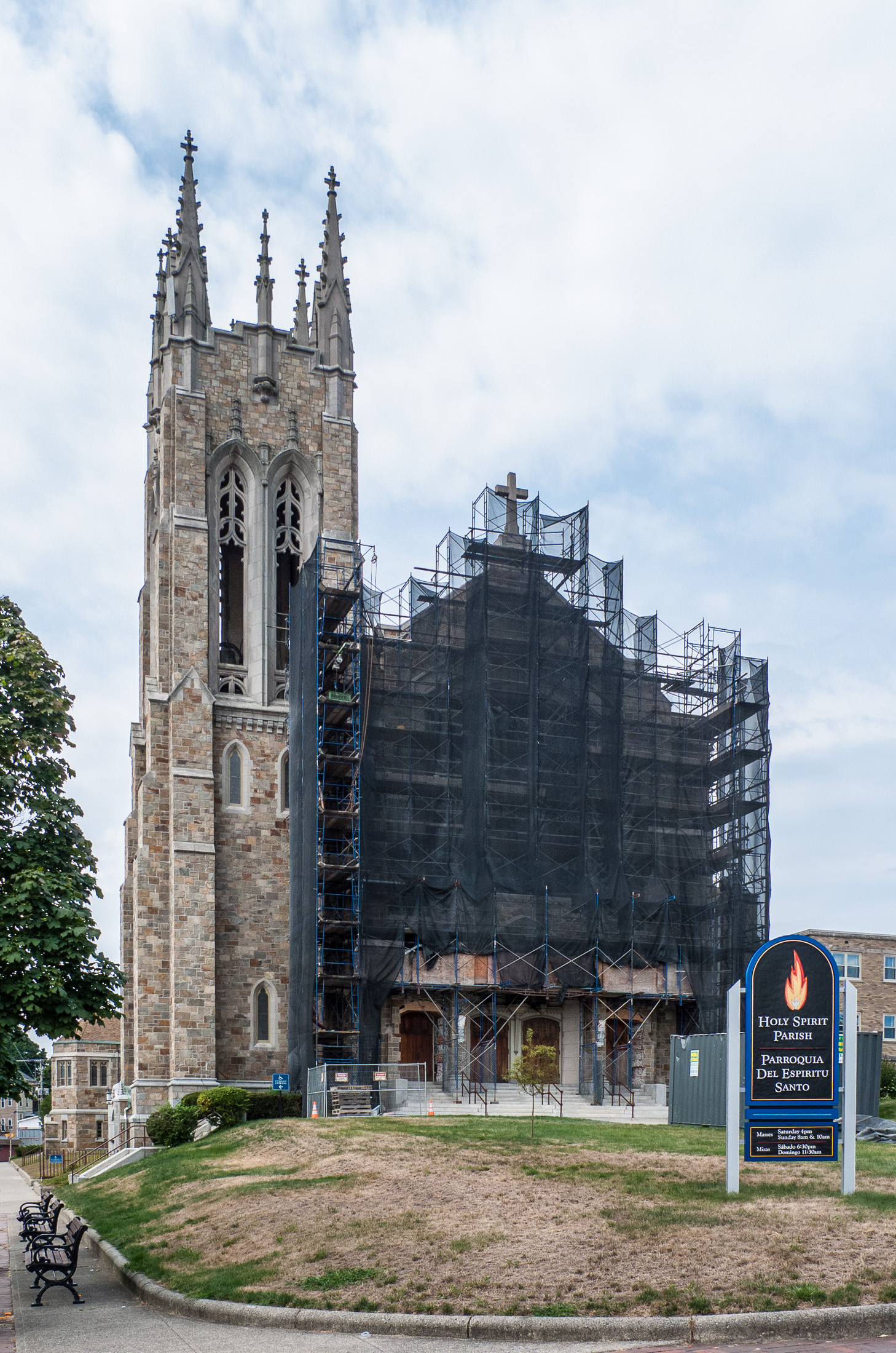 St. Matthews Church during renovations, August 2013.